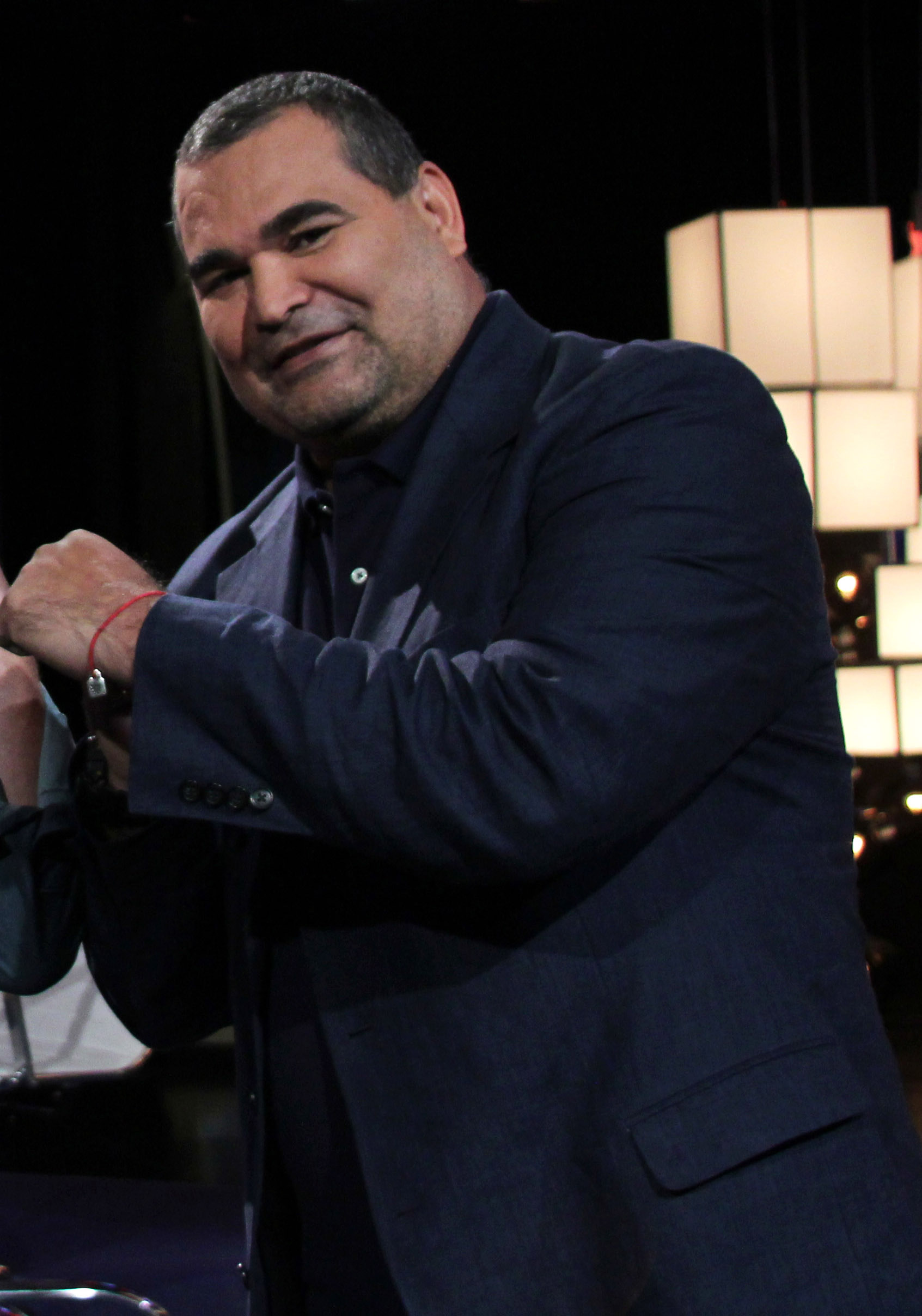 Paraguayan former footballer José Luis Chilavert during an interview for the Argentine TV show Línea de Tiempo with Matías Martin.